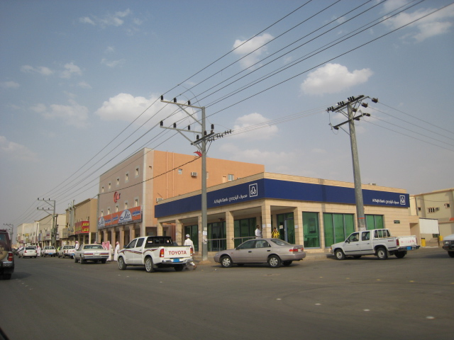 Muzahmiyah is located at 50 km Southwest of Riyadh